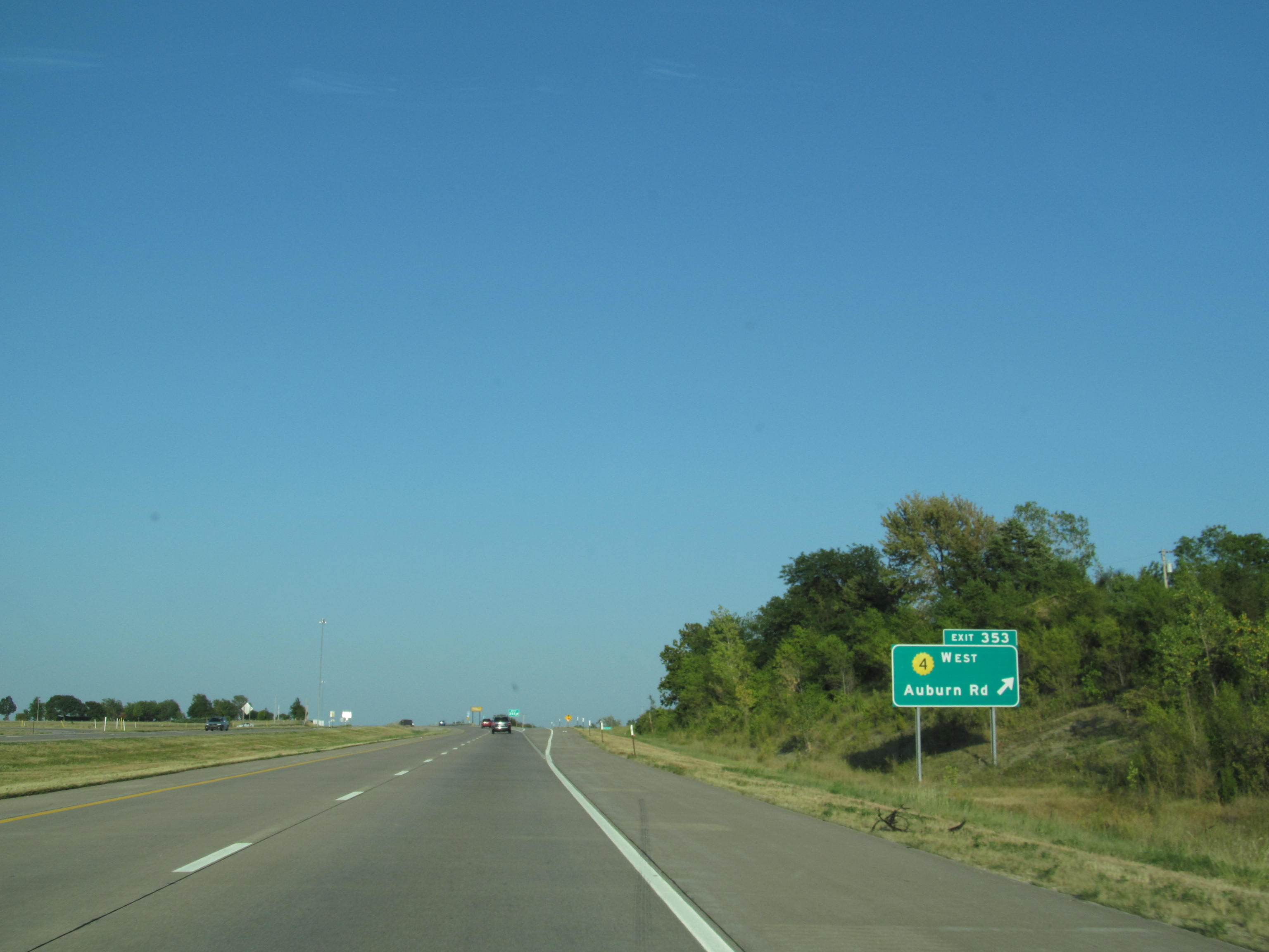 Interstate 70 and K-4 (Kansas highway)